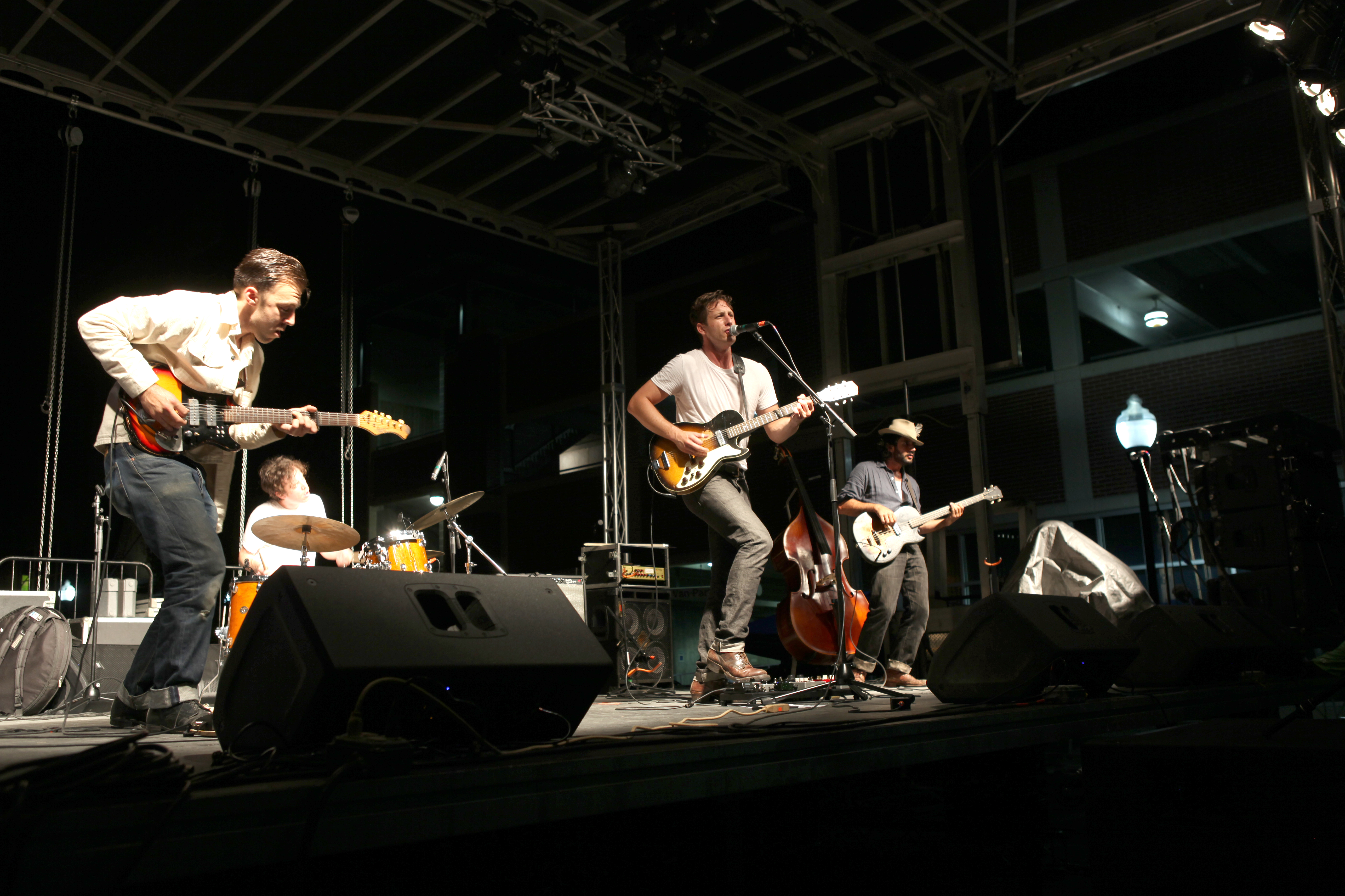 Los Angeles band The Americans performing at the Free State Festival in Lawrence, KS. By Ann Dean.